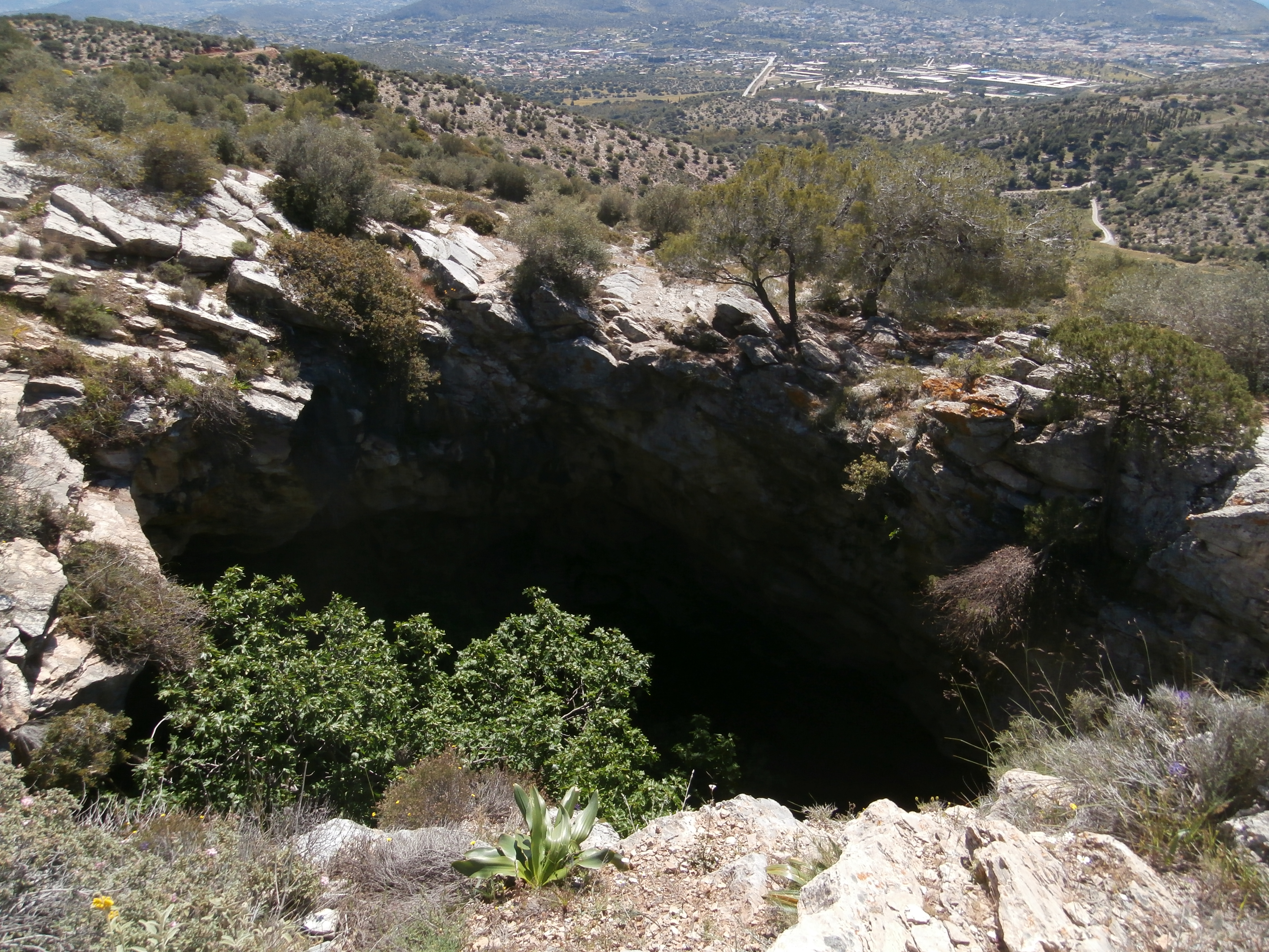 The cave of Sykia Thrakia, in reality a foiba, at Kremasmenos Lagos, Voula